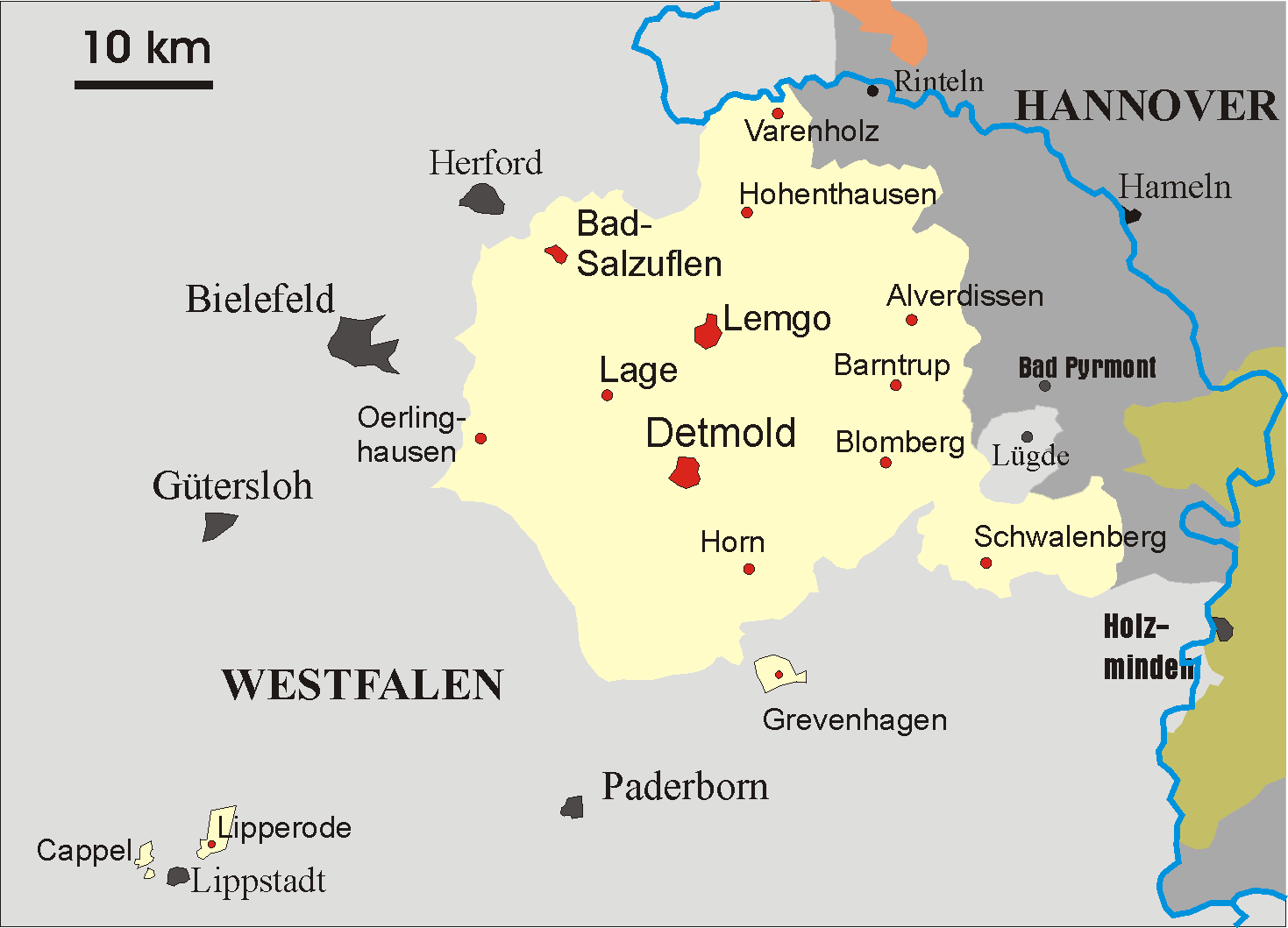 Map of the Free State of Lippe as of 1923.